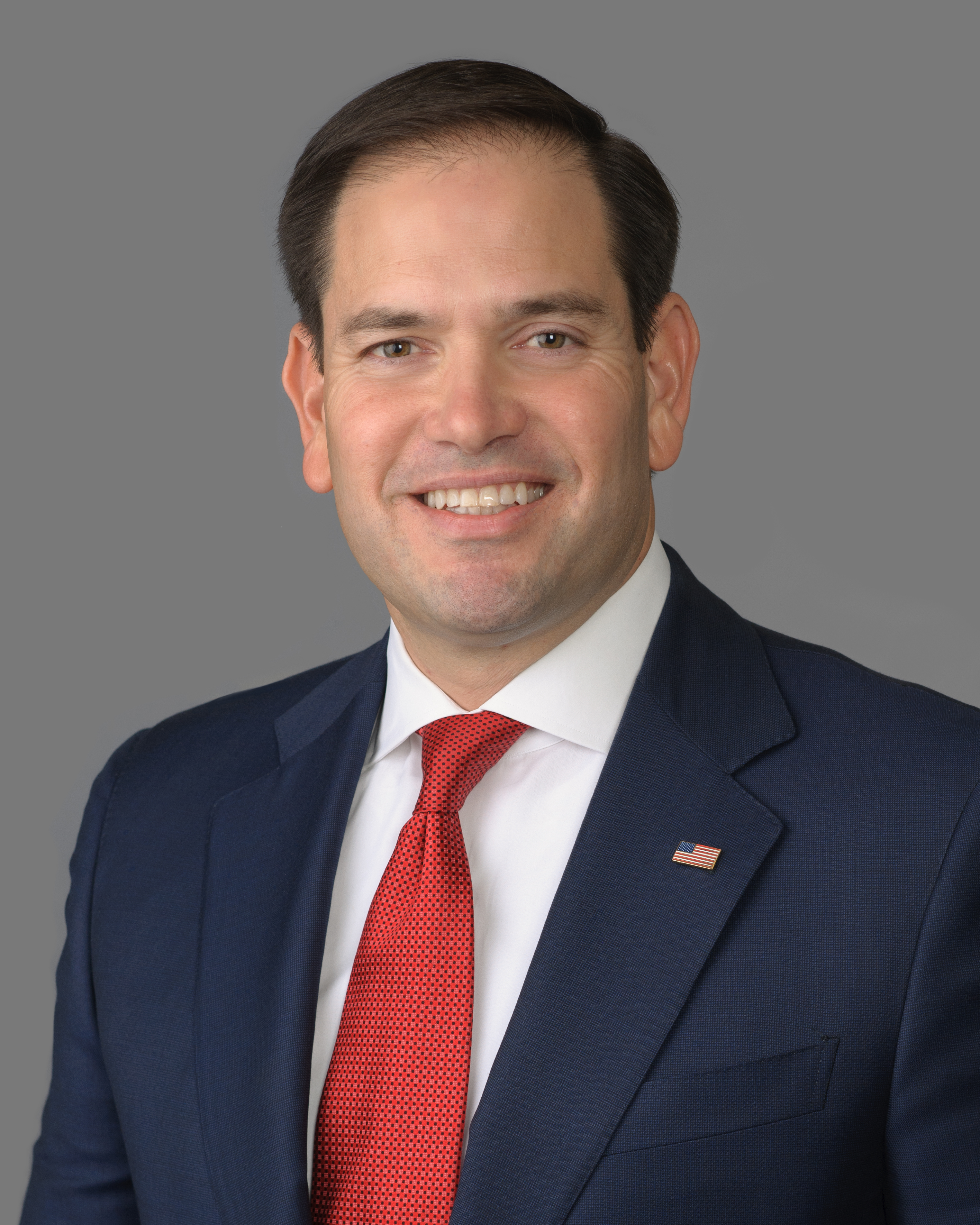 Official photo of Senator Rubio (R-FL)